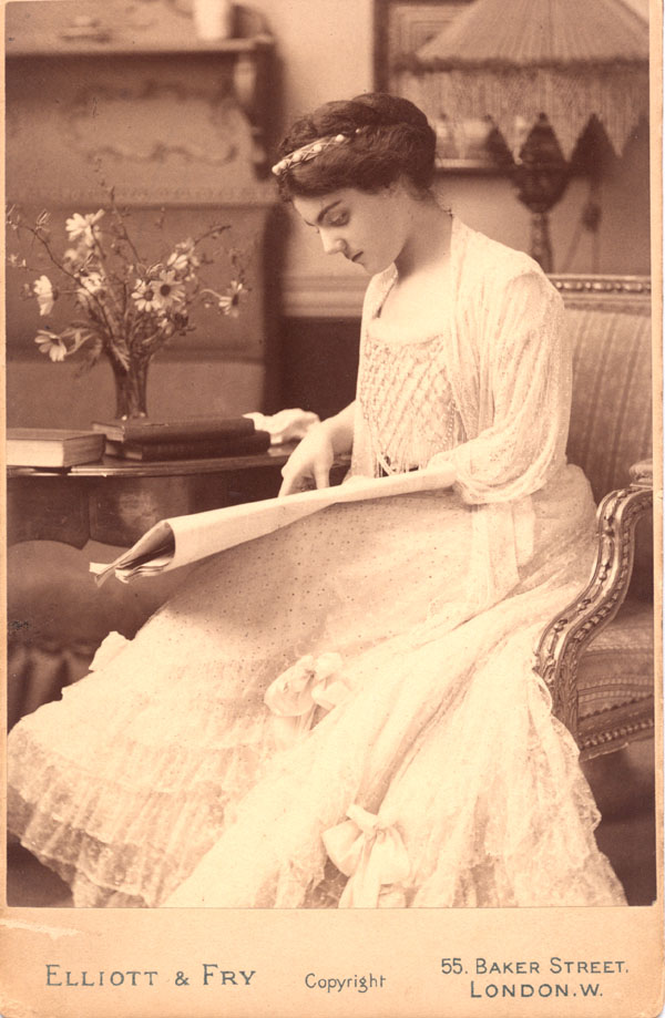 Eva Gauthier, sewing or something